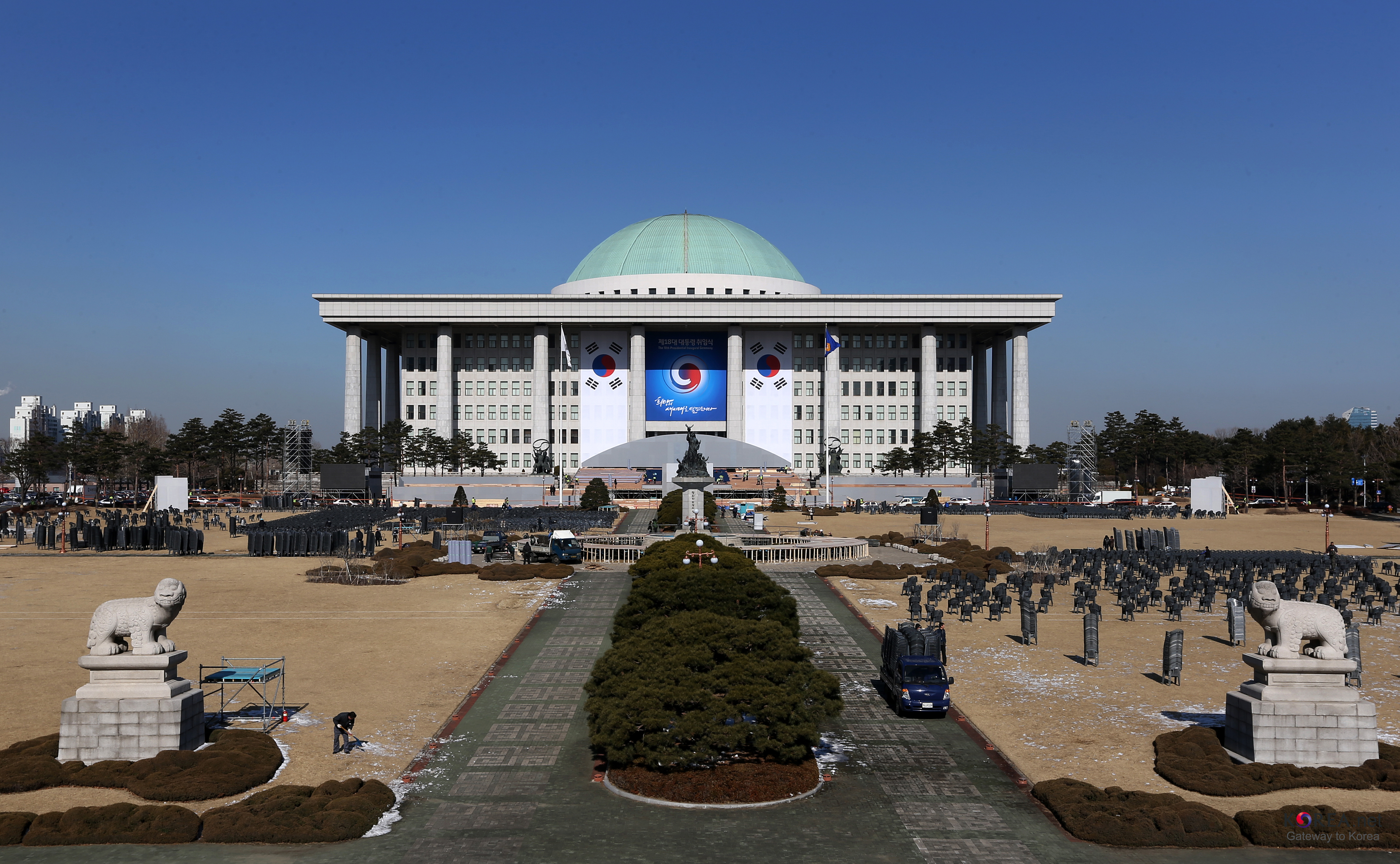 Republic of Korea Preparation for The 18th Presidential Inaugural Ceremony The National Assembly of the Republic of Korea, Yeuido 2013. 02.20. Ministry of Culture, Sports and Tourism Korean Culture and Information Service Jeon Han 제18대 대통령 취임식 준비 중인 여의도 국회의사당 국회의사당, 여의도 문화체육관광부 해외문화홍보원 코리아넷 전한